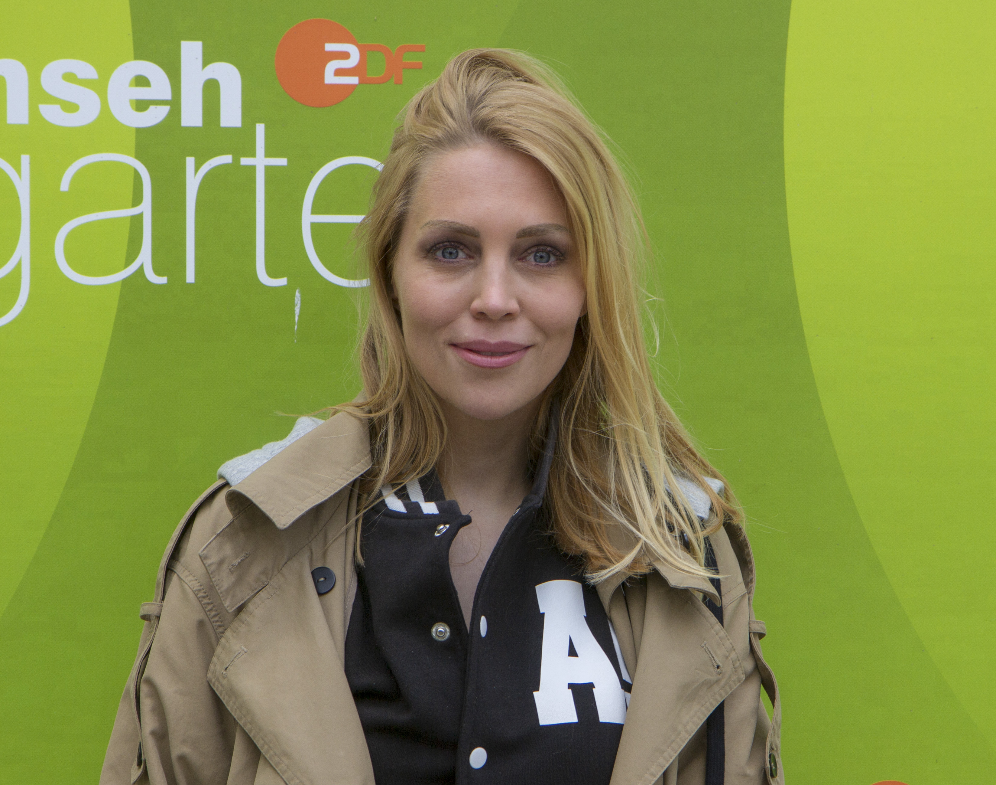 Alexa Feser: ZDF Fernsehgarten in Mainz.